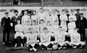 The very first Chelsea FC team pictured at the start of their inaugural season in English Division 2 in September 1905 From The Lordprice Collection